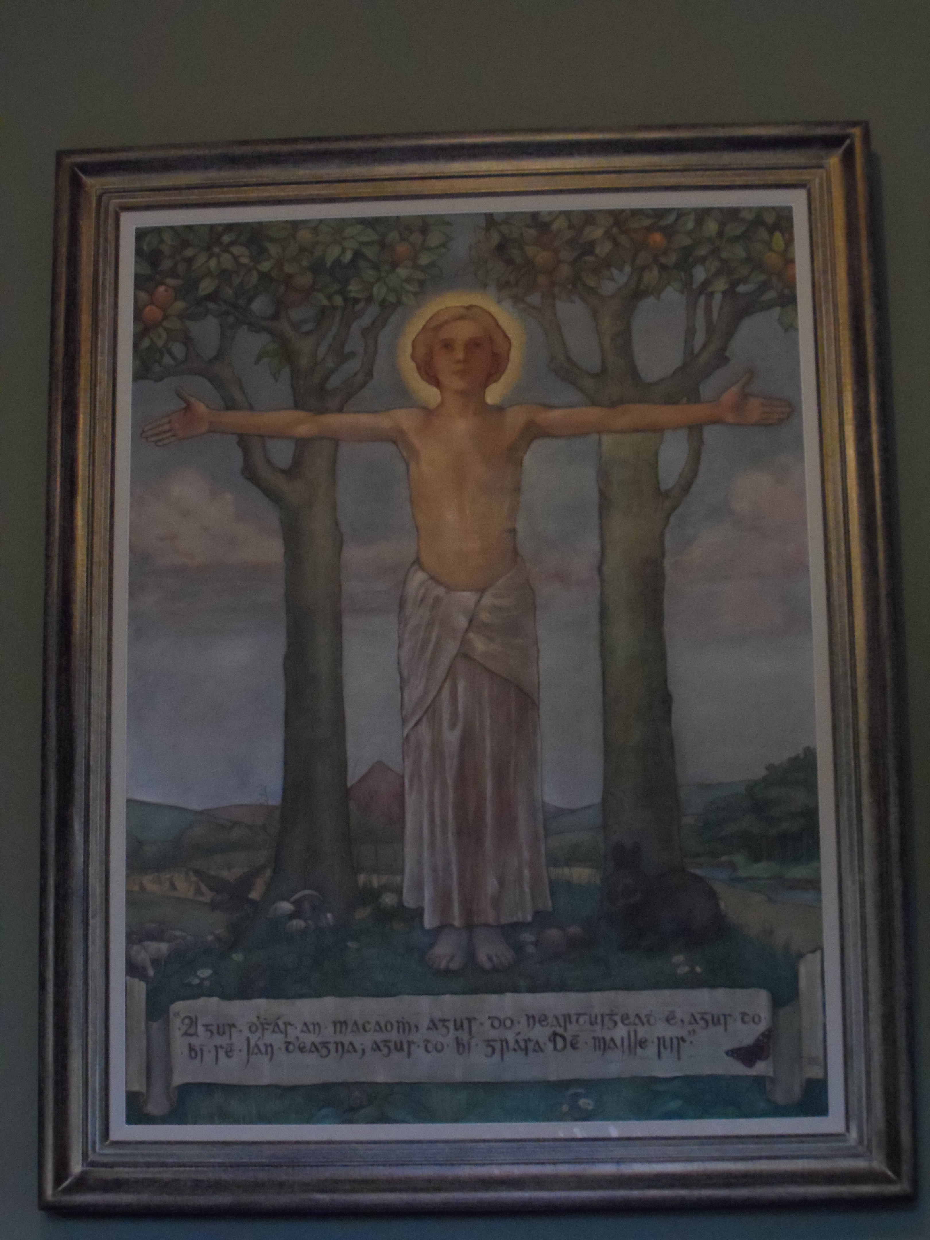 Saint portrait, Rathfarnham